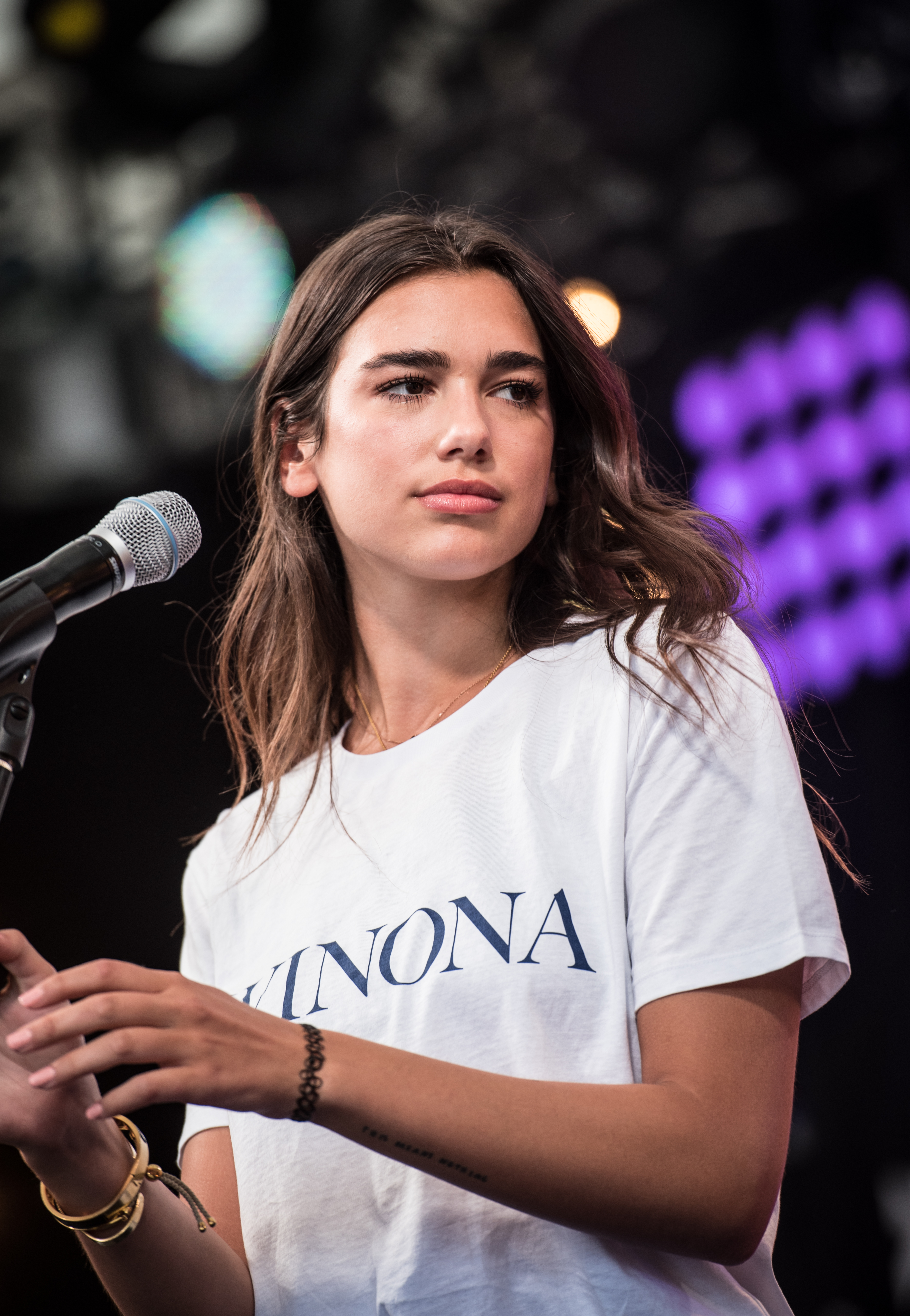 British singer and songwriter Dua Lipa at the SWR3 New Pop Festival 2016.